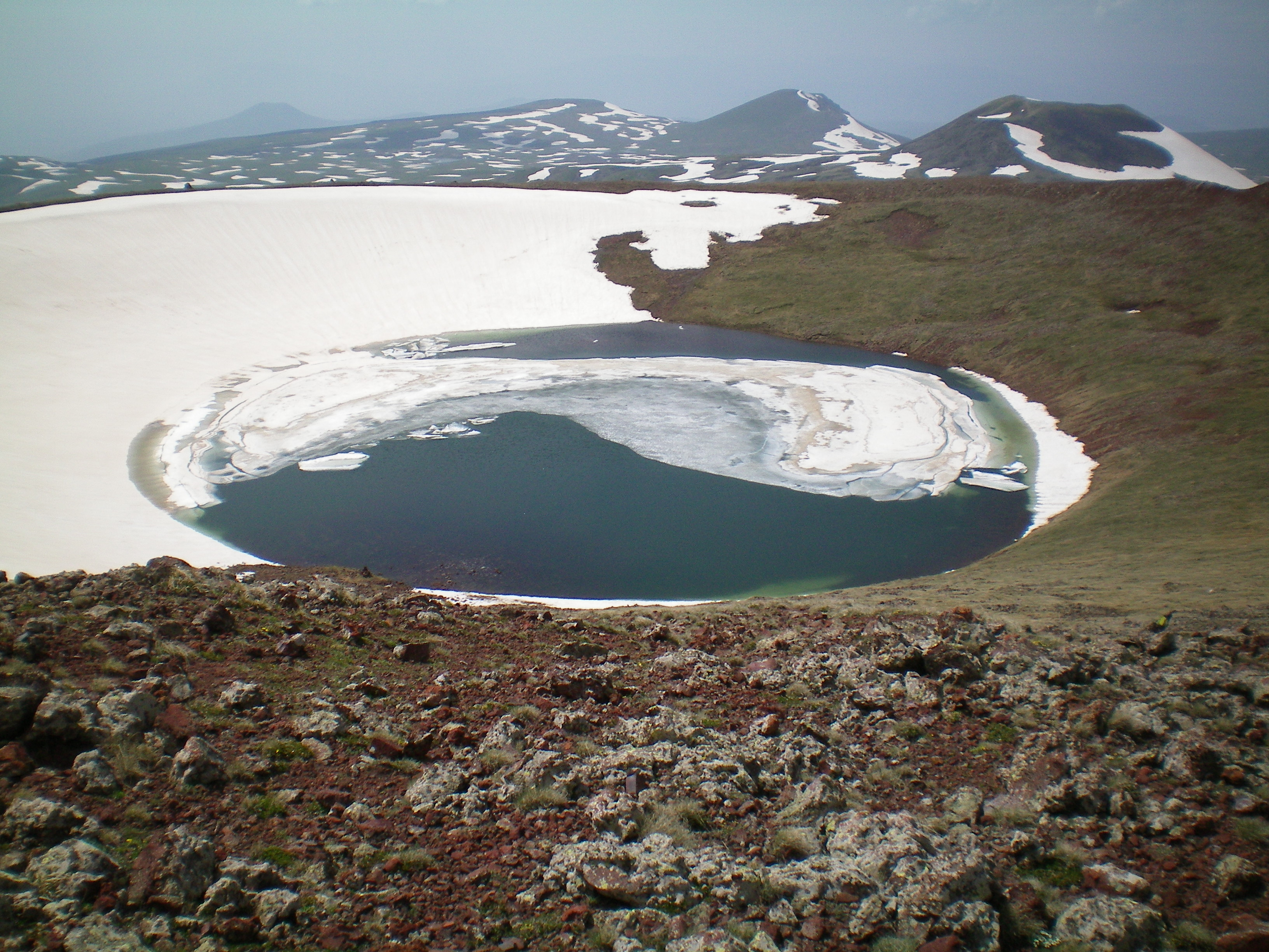 Lake Akn on the top of Azhdahak volcano, 3597 m above sea level